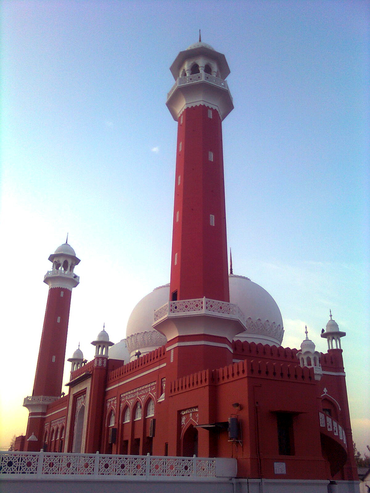 Main Jamiyya Mosque Wah Cantt This is a photo of a monument in Pakistan identified as the PB-U-67